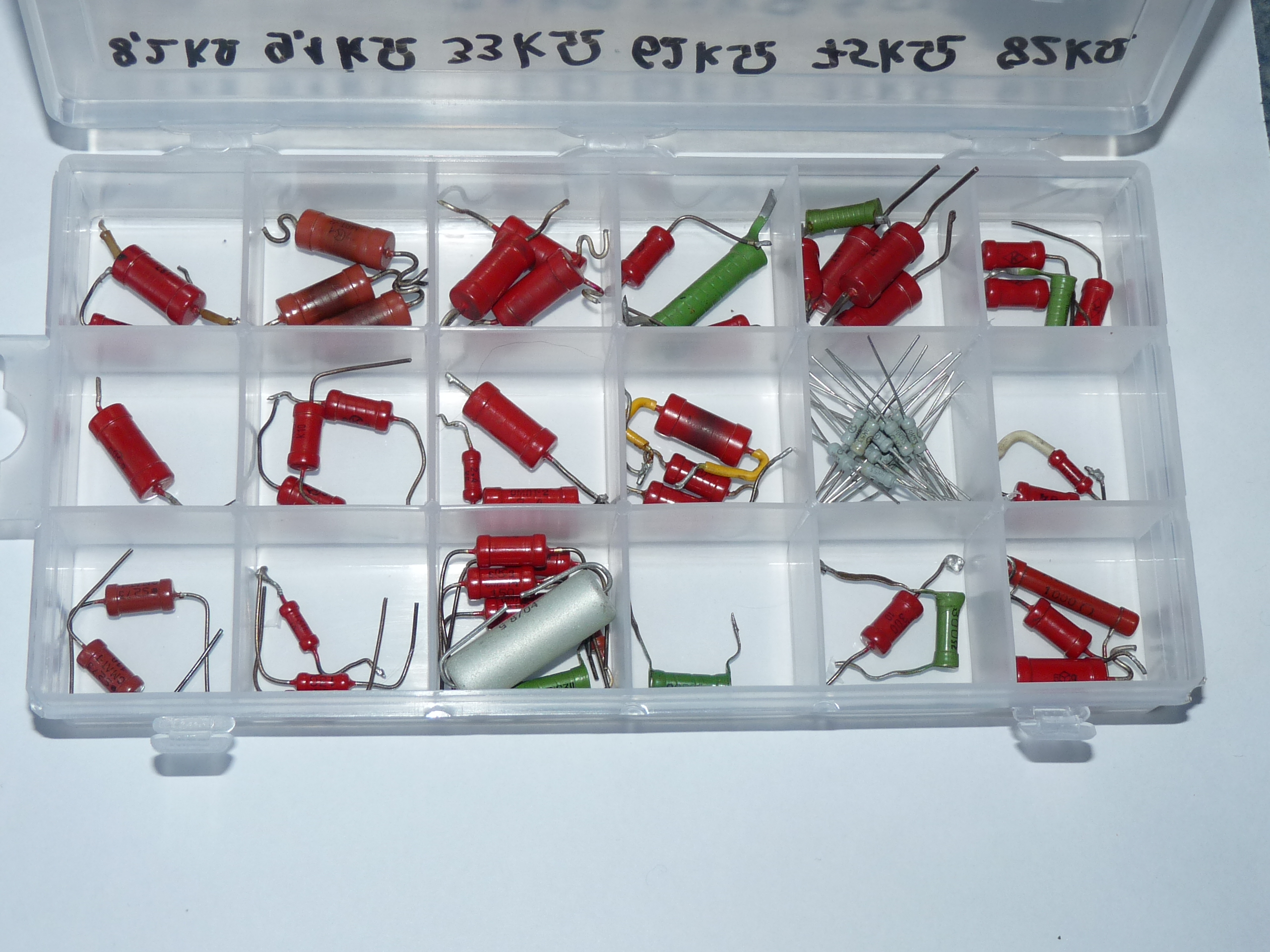 Service kit with USSR resistors. To repair electronic devices cheaper and available for more people, during crisis time use old electronic components as their cheap price.